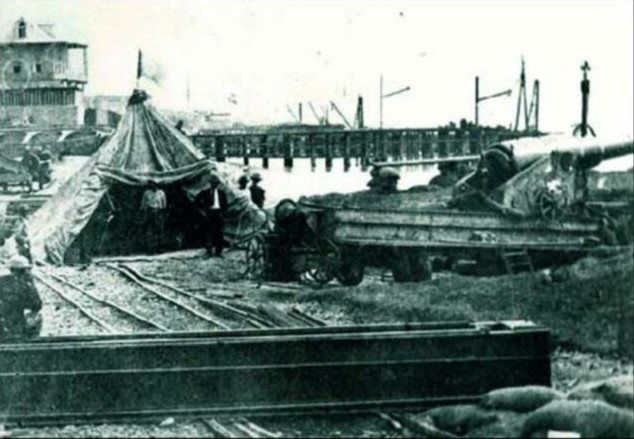 The people gun